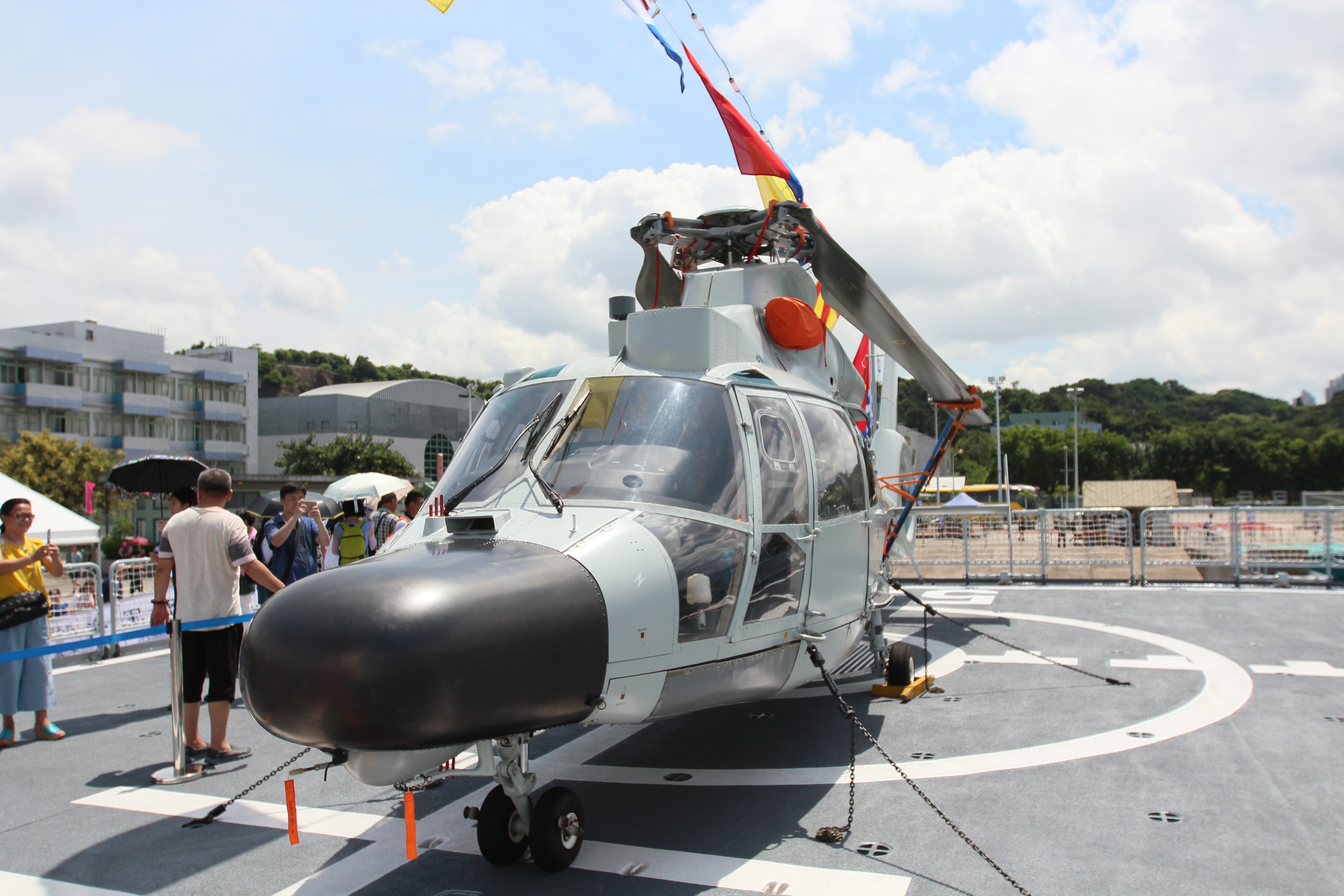 PLAN Z-9 Helicopter on 175 Yinchuan